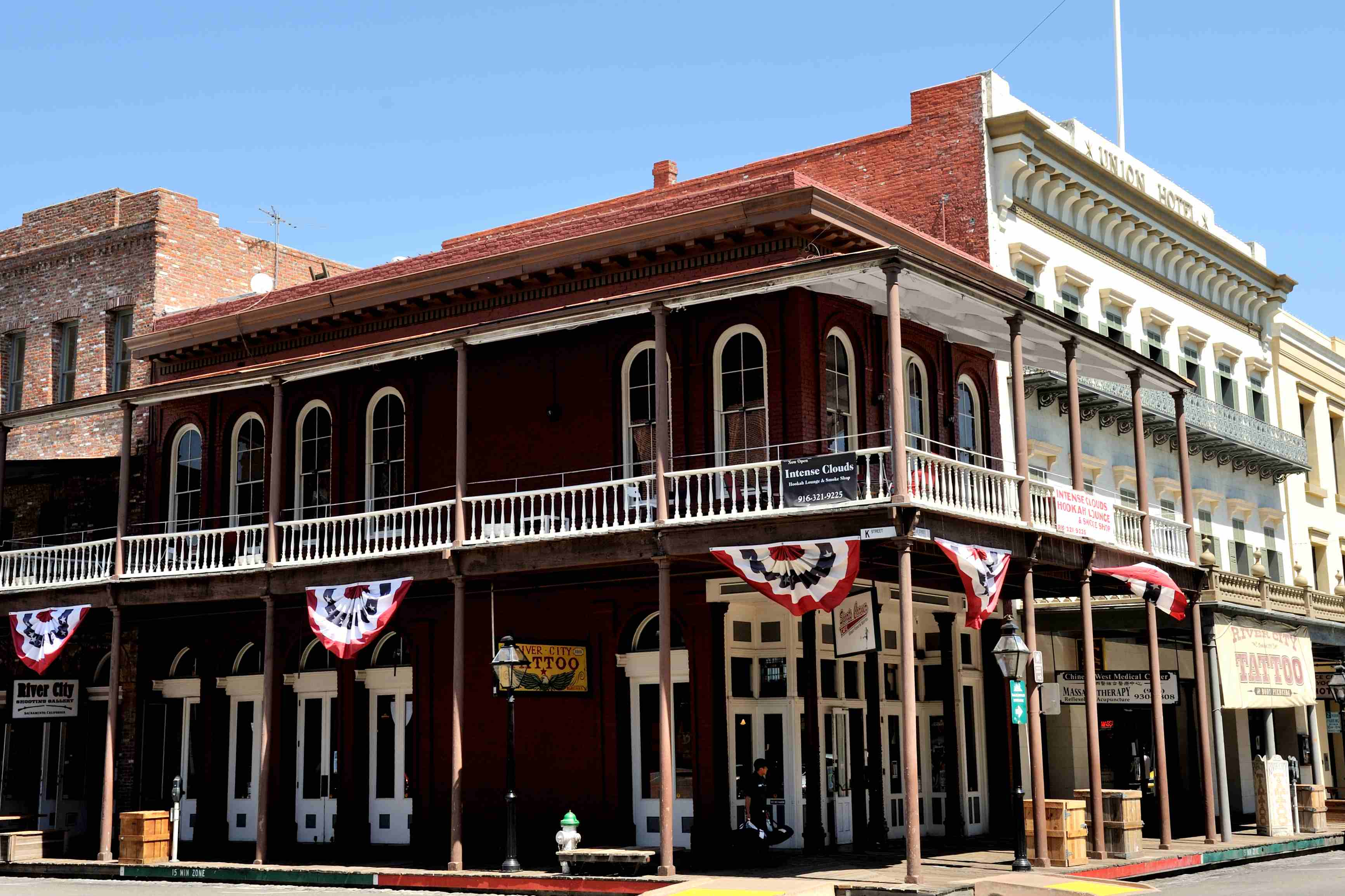 Union Hotel - Old Sacramento Was a important place for political meeting and lobbying.